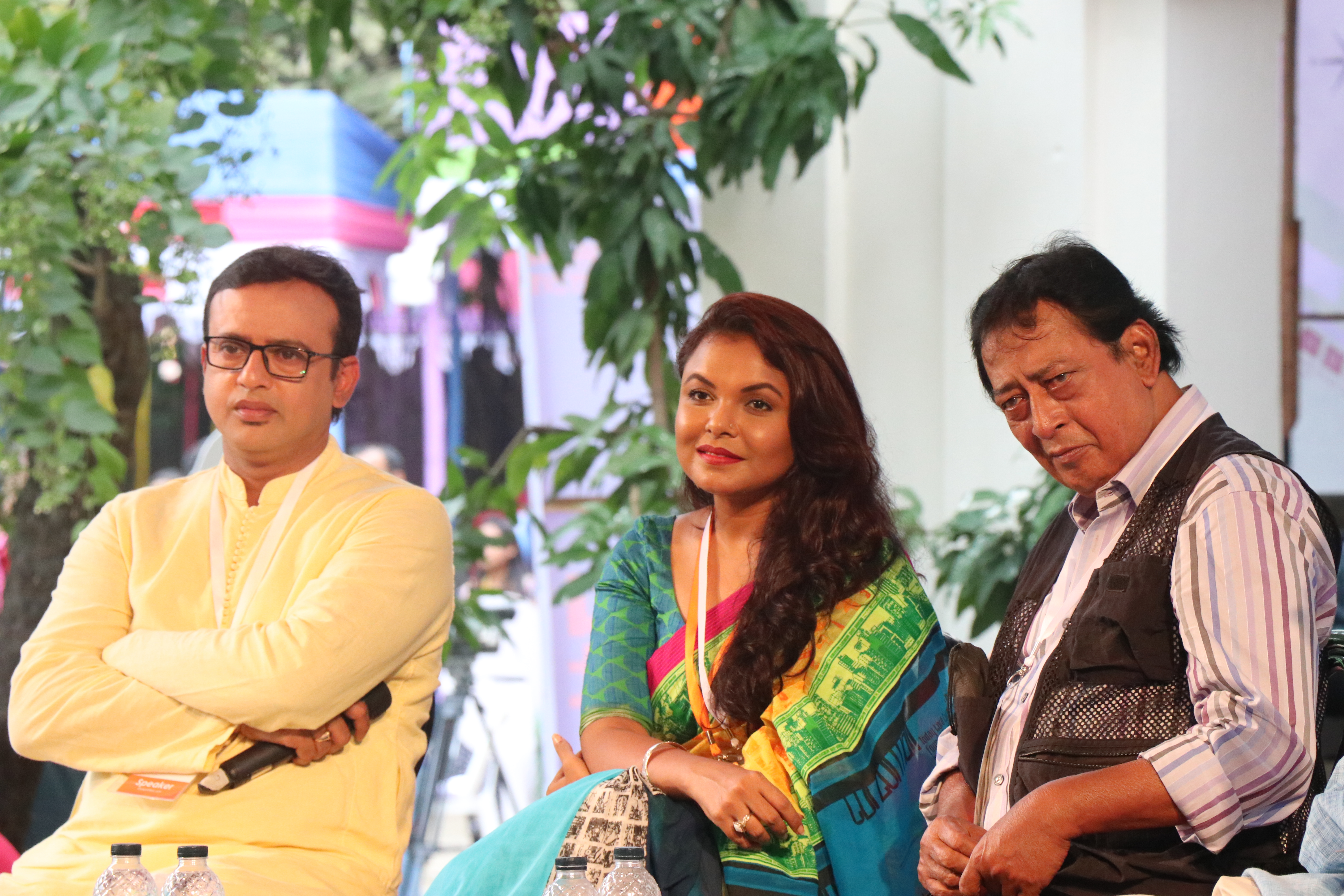 Discussion on Humayun Ahmed cinema at Dhaka Lit Fest 2017